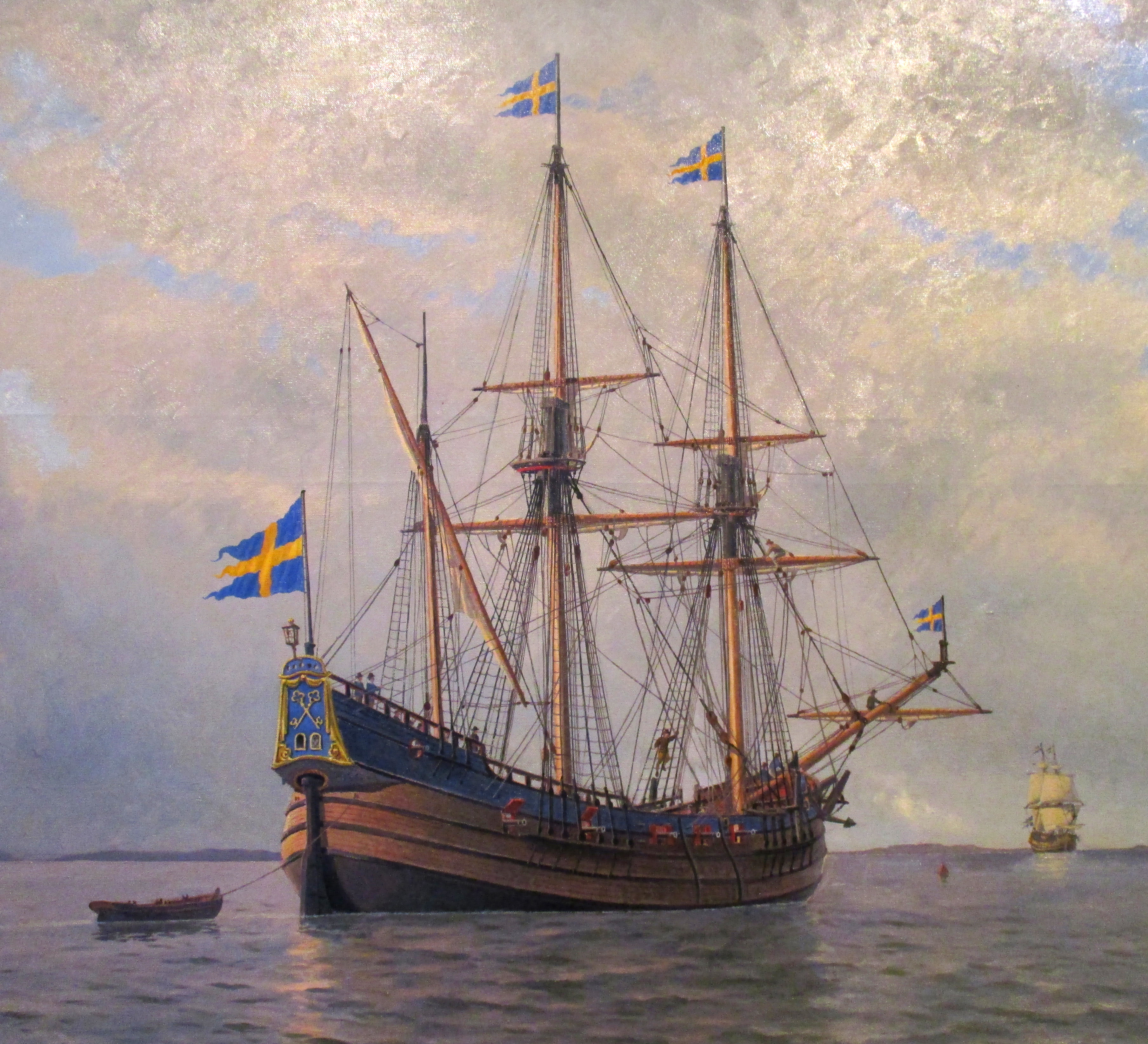 Oilpainting of Kalmar Nyckel by Jacob Hägg (1839-1931) , 1922. Cropped version.